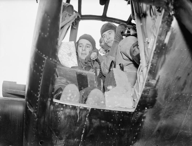 Royal Air Force- France, 1939-1940. The pilot and observer of a Bristol Blenheim Mark IV sitting at their positions in the cockpit as for an aerial reconnaissance sortie.